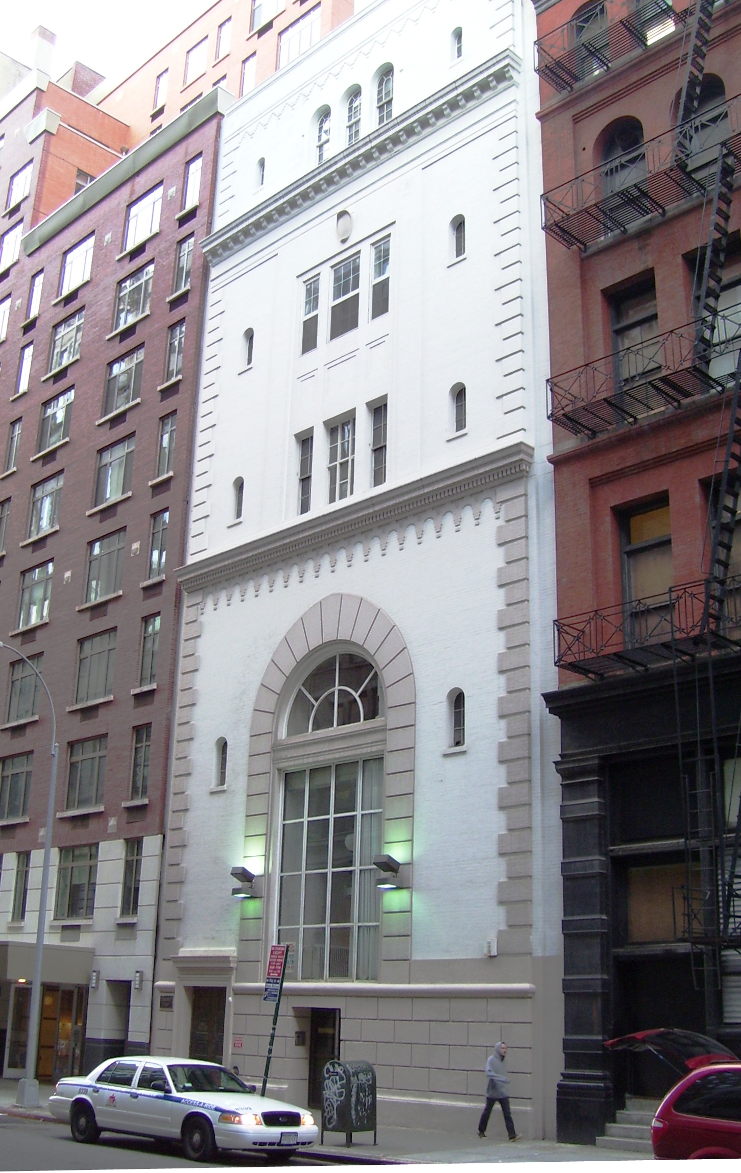 119 West 22nd Street between Avenue of the Americas (Sixth Avenue) and Seventh Avenues in Manhattan, New York City lies just outside the Ladies Mile Historic District. It was built in 1920, and is in use as residential condominiums. (Source: Emporis)